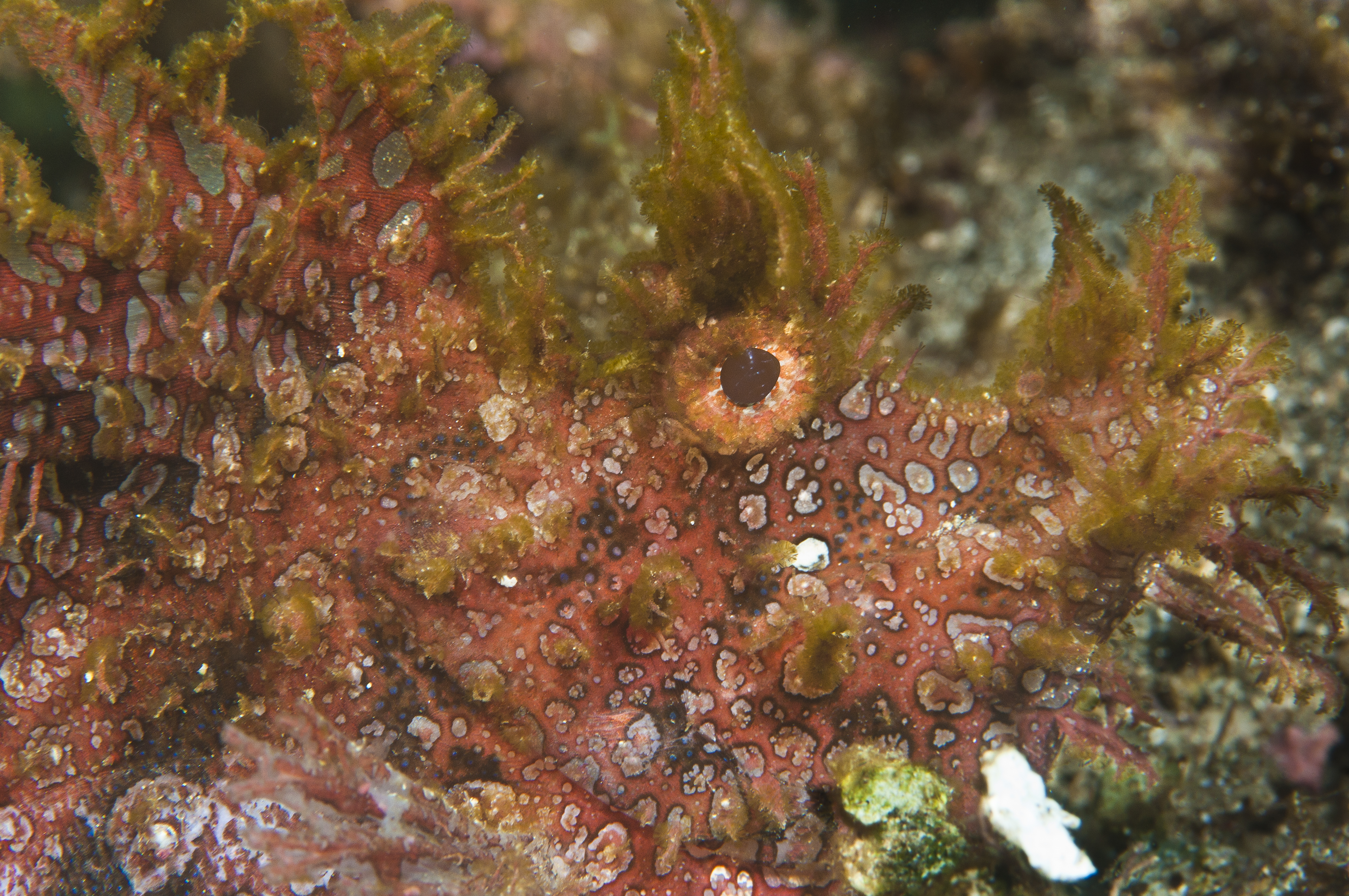 A Weedy or Lacy Rhinopias scorpionfish in waters near Alor Island, Indonesia.